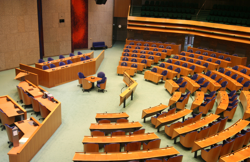 Interior of the House of Representatives of the Netherlands